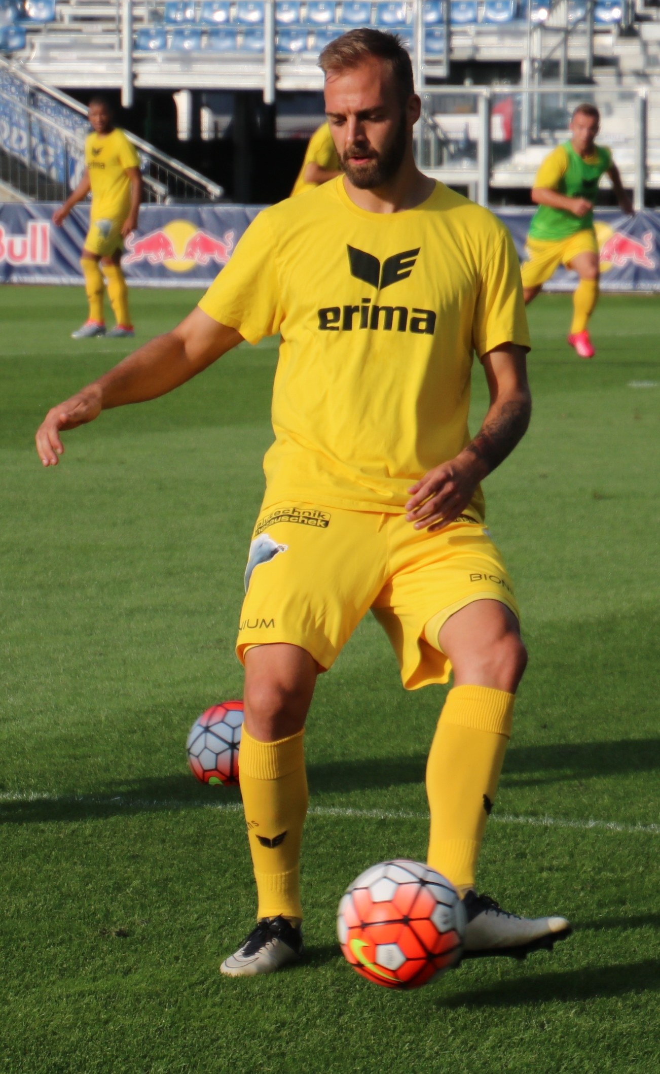 league match Austria 2nd league